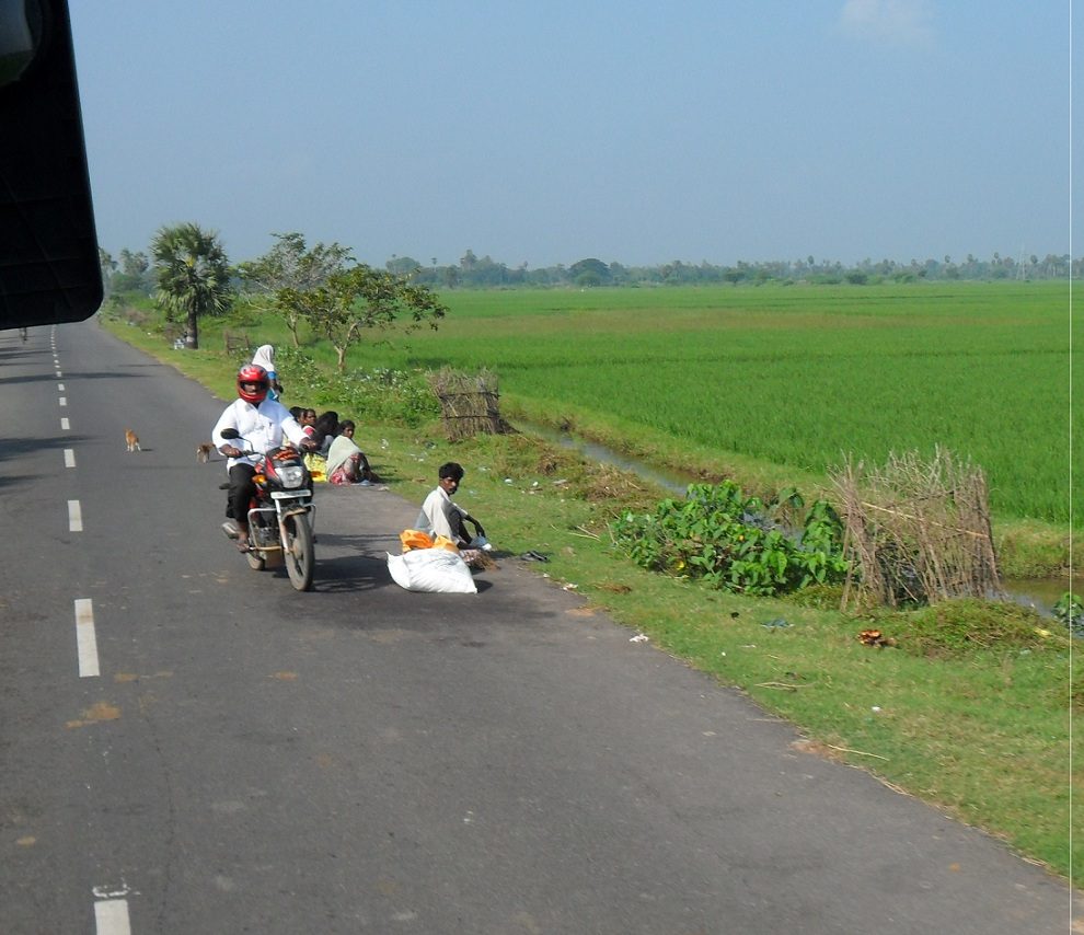 Indian peasants sitting along the roadside in Tamil Nadu